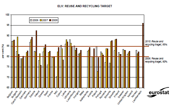 Quota results of European countries to prove compliance with EU ELV Directive obligations.